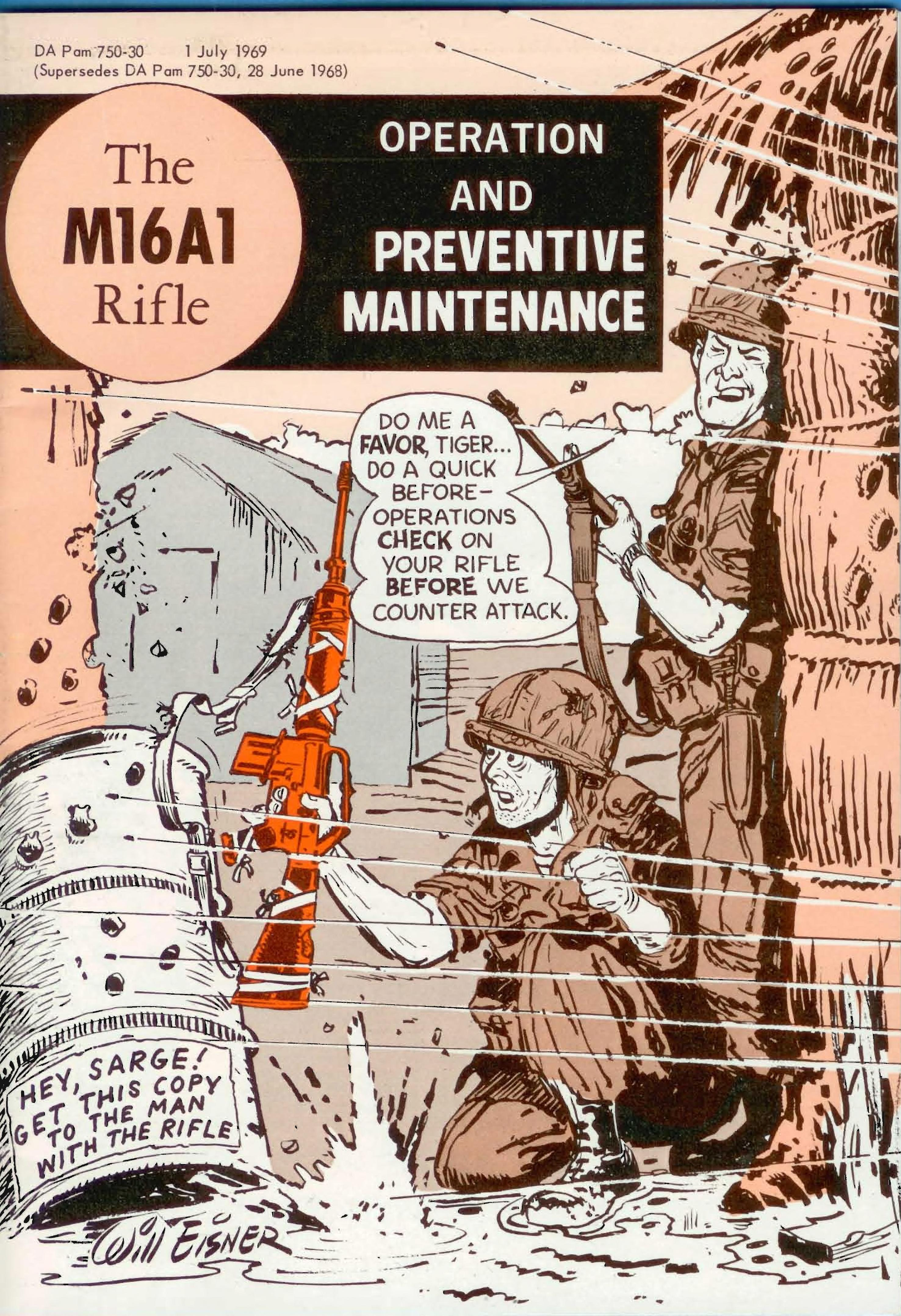 Cover page of a U.S Army Graphic Training Aid